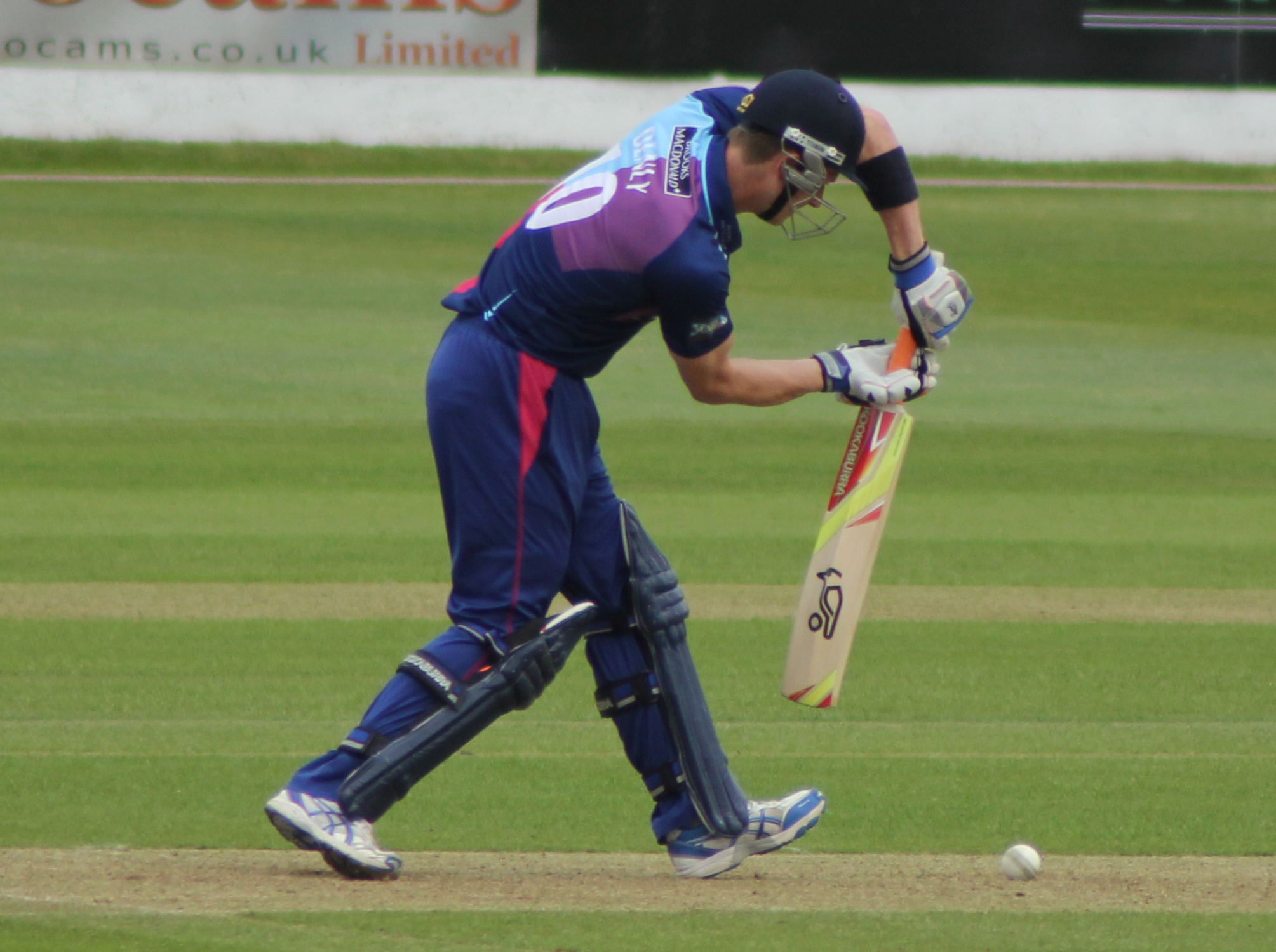 Joe Denly batting for Middlesex during their Yorkshire Bank 40 match against Somerset at the County Ground, Taunton in 2013.